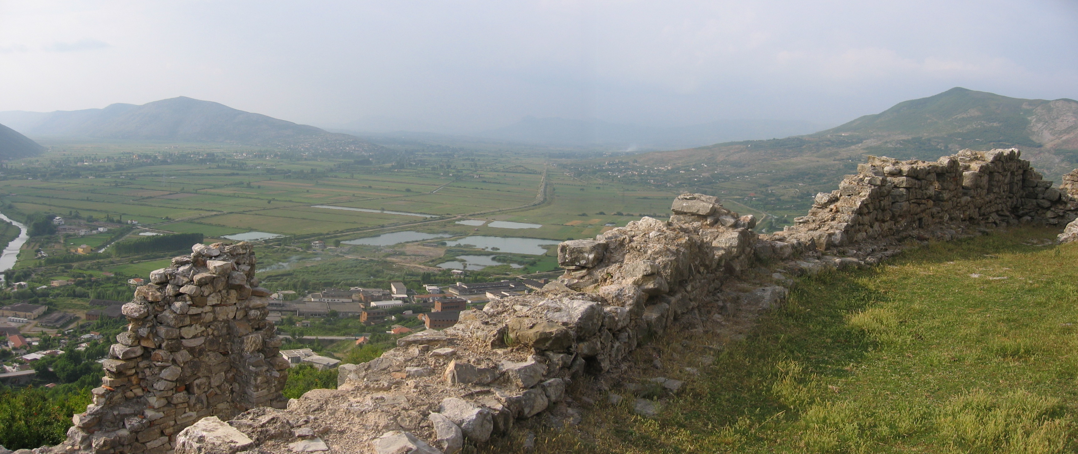 The Zadrima plain in northern Albania seen from the castle of Lezha